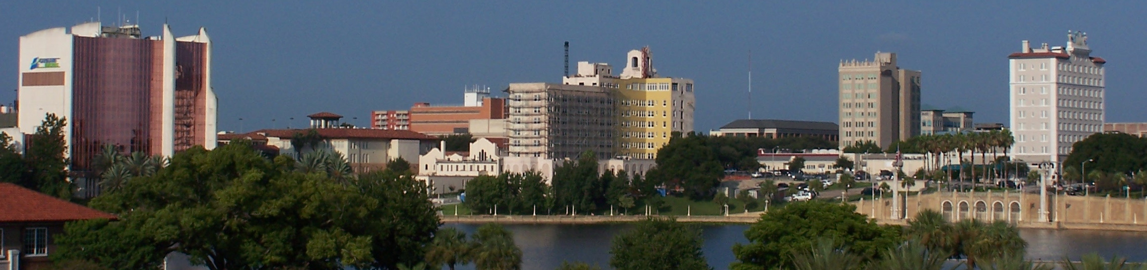 Skyline of downtown Lakeland, Florida, United States.